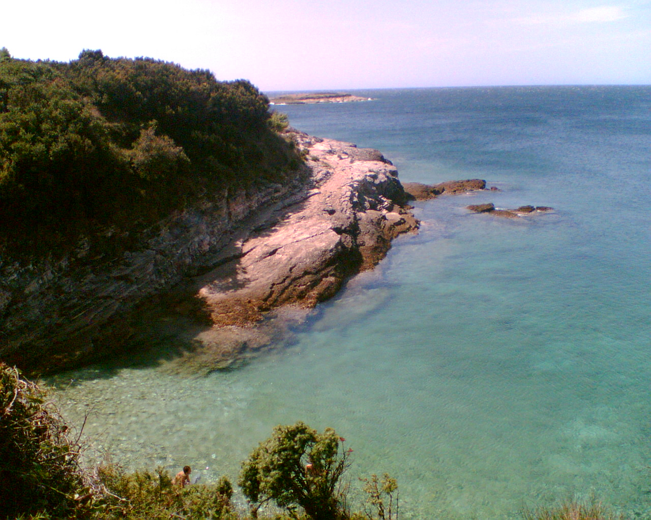 One of the many coves of Cape Kamenjak.